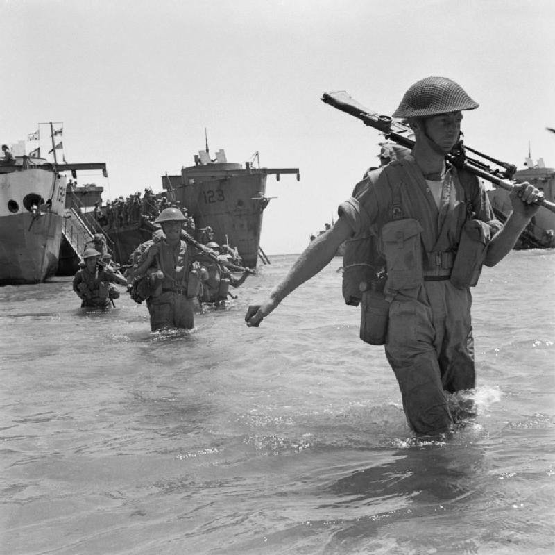 British troops wade ashore during the invasion of Sicily, 10 July 1943. Troops wade ashore from landing ships, 10 July 1943.